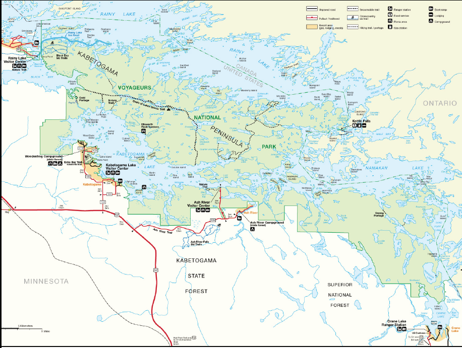 NPS Voyageurs National Park map